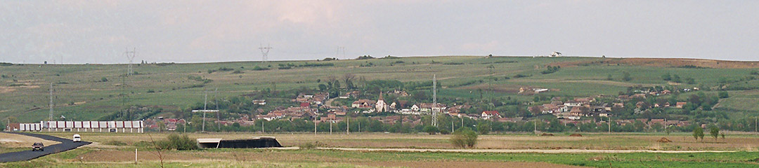 view of Bungard (Baumgarten) village, Sibiu county, Romania